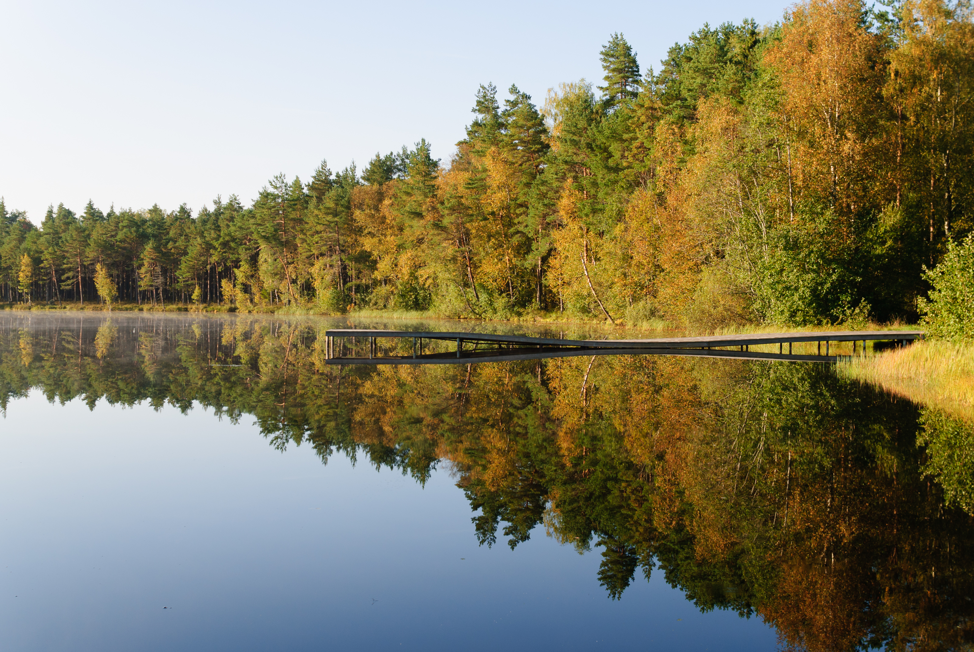 Reflection on Matsimäe Pühajärv in Järva County.